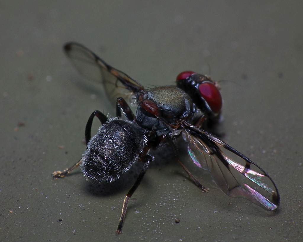 Boatman Fly (Pogonortalis doclea) in Brisbane, Queensland, Australia